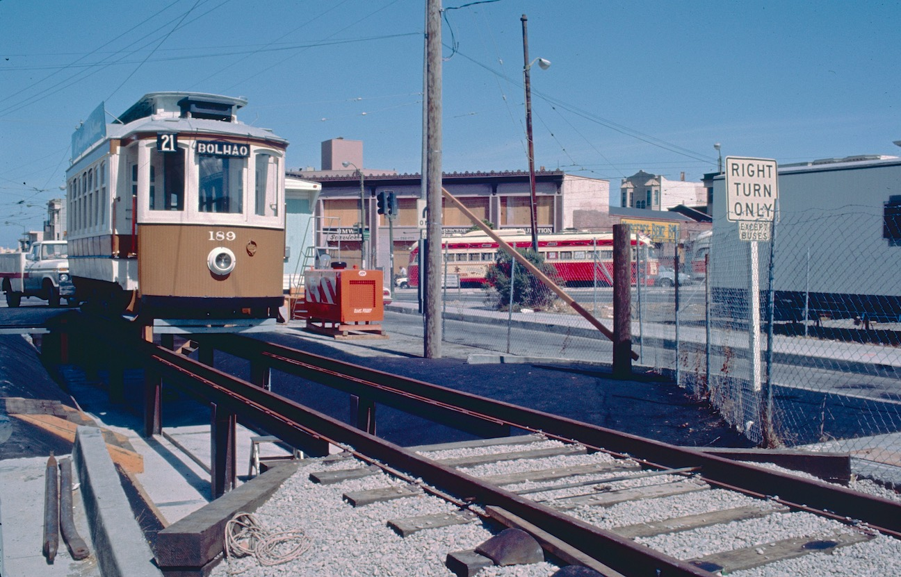 During the first San Francisco Historic Trolley Festival, in 1983, Porto streetcar No. 189 is parked over the inspection pit at Duboce Yard (a.k.a. Mint Division). This was in the Duboce Avenue right-of-way, on a third track that had been only recently installed, for maintenance during the first Historic Trolley Festival. Car 189 had been moved to here for the first time, from Metro Center, less than two days earlier (the night of June 30/July 1) and had not yet entered service.